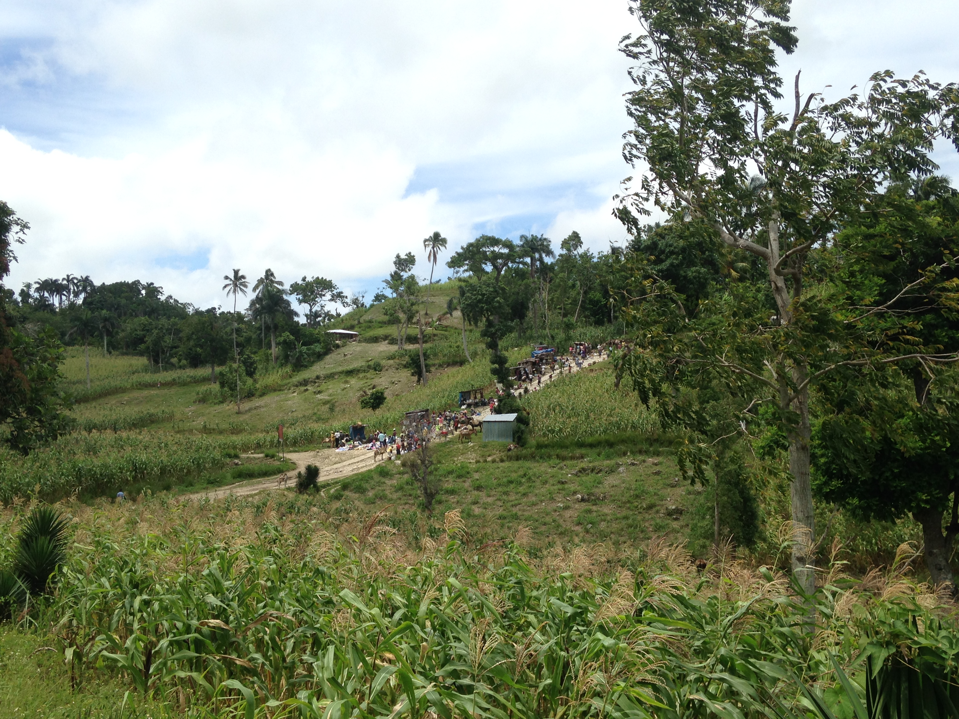 A Market on a monday in Delatte in the municipality (commune) of Petit-Goâve in Haiti.